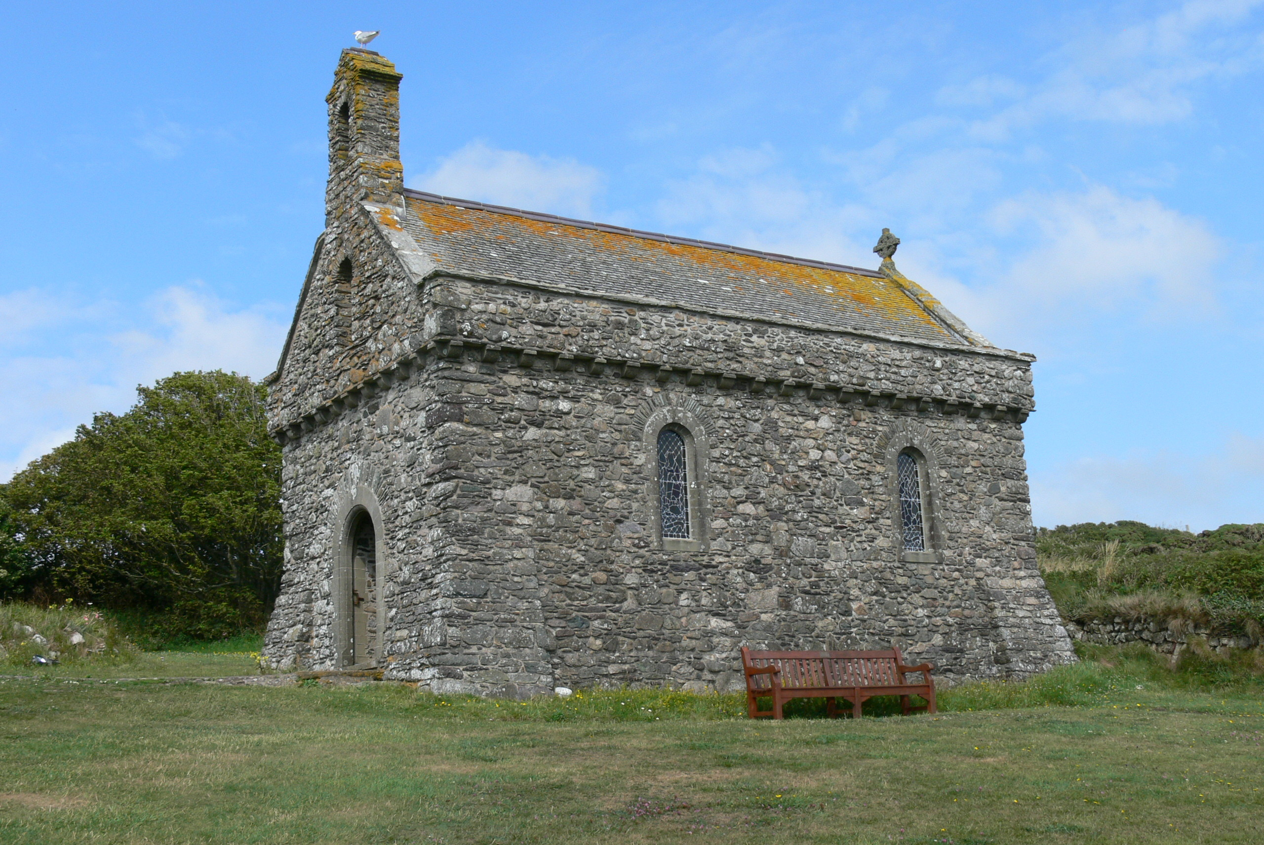 Our Lady and Saint Non's chapel ( St Davids, Wales ).